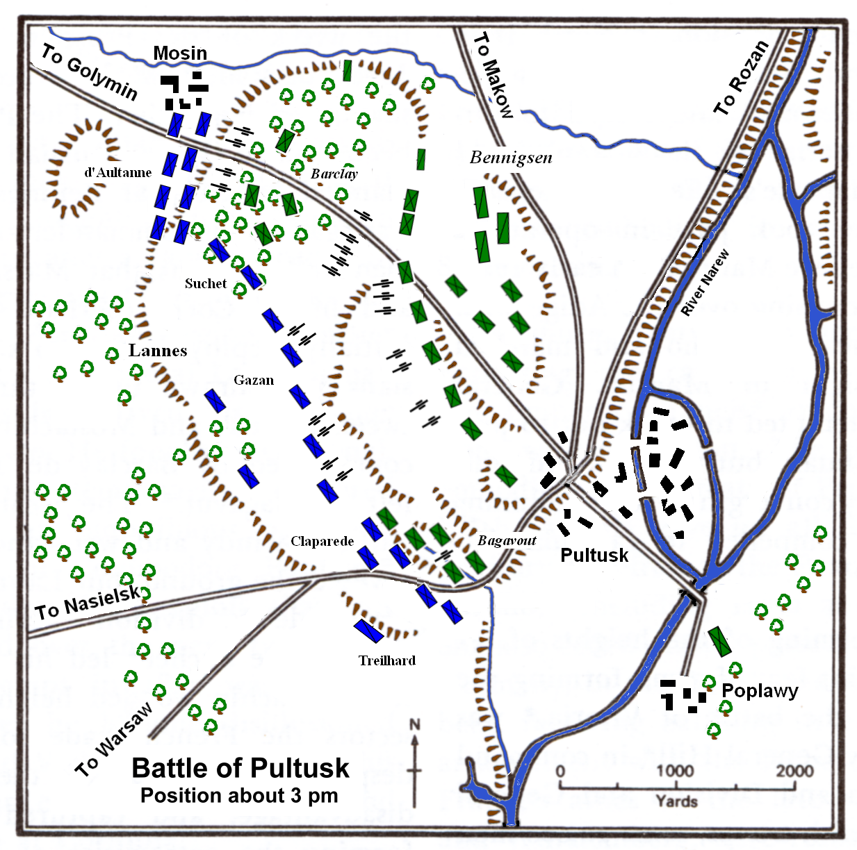 Drawn by Andrew Hobley based on maps in "Napoleon's Campaign in Poland" F L Petre, 2001, and David Chandler, "Dictionary of the Napoleonic Wars" 1993.